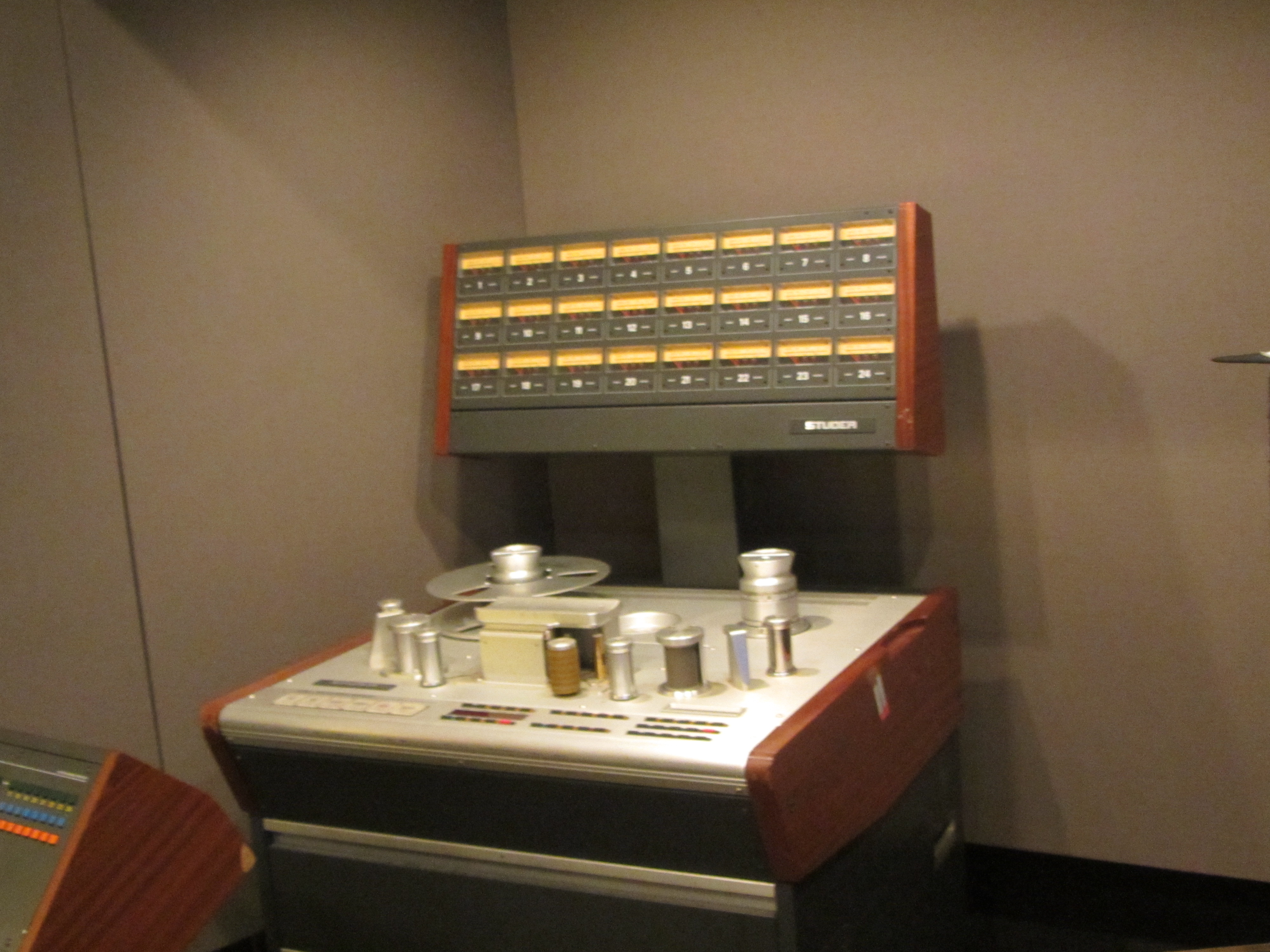 Studer 827 analog 2" 24-track (one optional 16-track headstack) "they can still record in analogue, which sounds waaaay better :hipster:" References Studio Equipment List - Tape Machines. Atdent Studios.